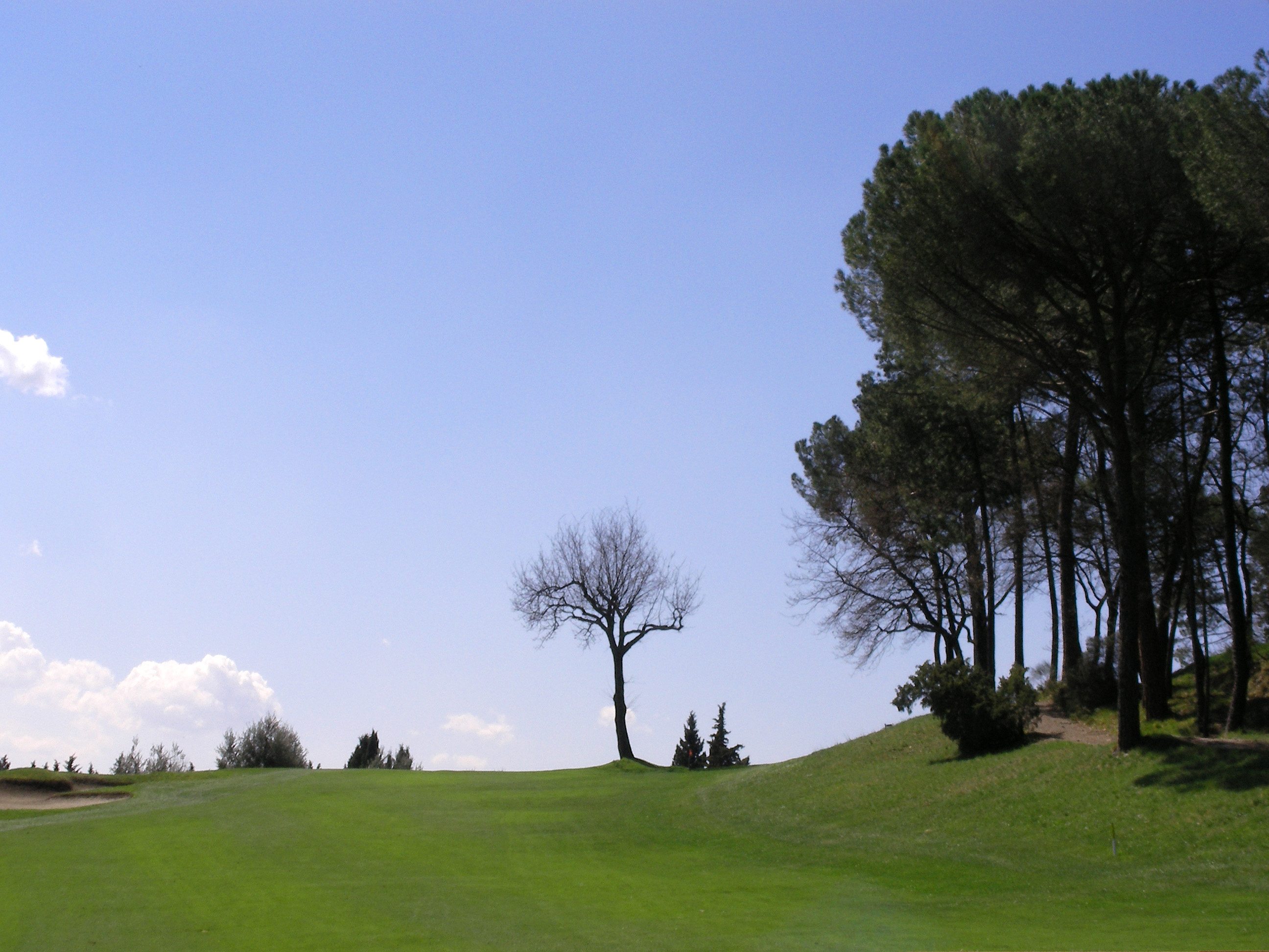 7th Fairway with Tree defending the Green, Circolo del Golf dell'Ugolino